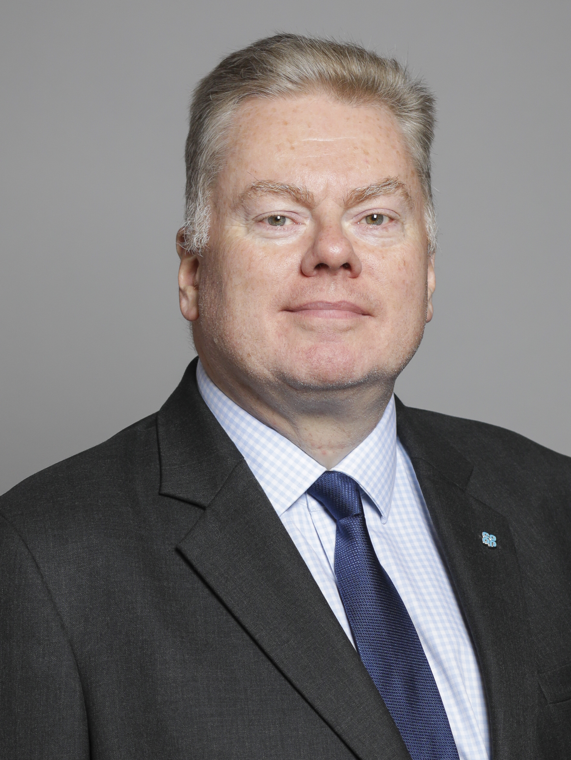 Official portrait of Lord Kennedy of Southwark Full sized portrait of Lord Kennedy of Southwark